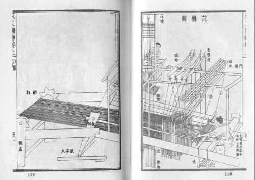 A Chinese drawloom for figure-weaving, from the Tiangong Kaiwu encyclopedia published in 1637, by the Ming-Dynasty encyclopedist Song Yingxing (1587-1666). This illustration can be found on page 55 of E-tu Zen Sun and Shiou-Chuan Sun's English translation of the Tiangong Kaiwu (Pennsylvania State University Press, 1966). This image was taken from